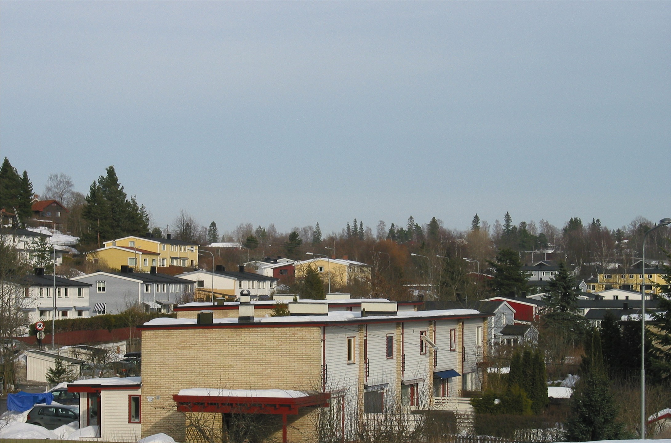 Housing near the bus station Nordveien, Østerås, Norway. Seen from the bridge.